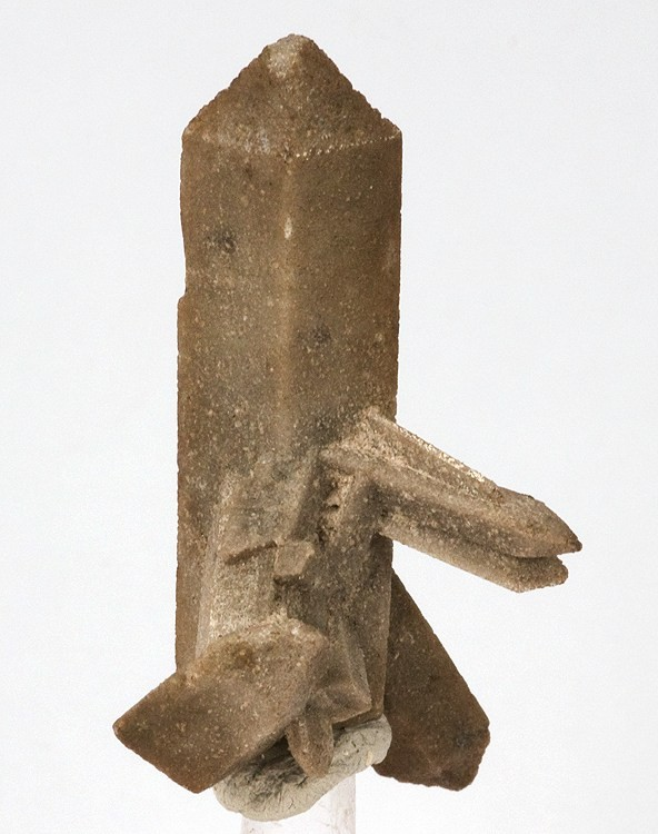 Topaz Locality: Topaz Mountain, Thomas Range, Juab County, Utah, USA (Locality at ) Size: 4.7 x 2.6 x 1.8 cm. A classic and aesthetic cluster of razor-sharp, sand-included topaz crystals from Topaz Mountain and the John Sinkankas Collection. This complete all-around crystal cluster is nearly pristine. The side crystals make for a dramatic and elegant specimen.